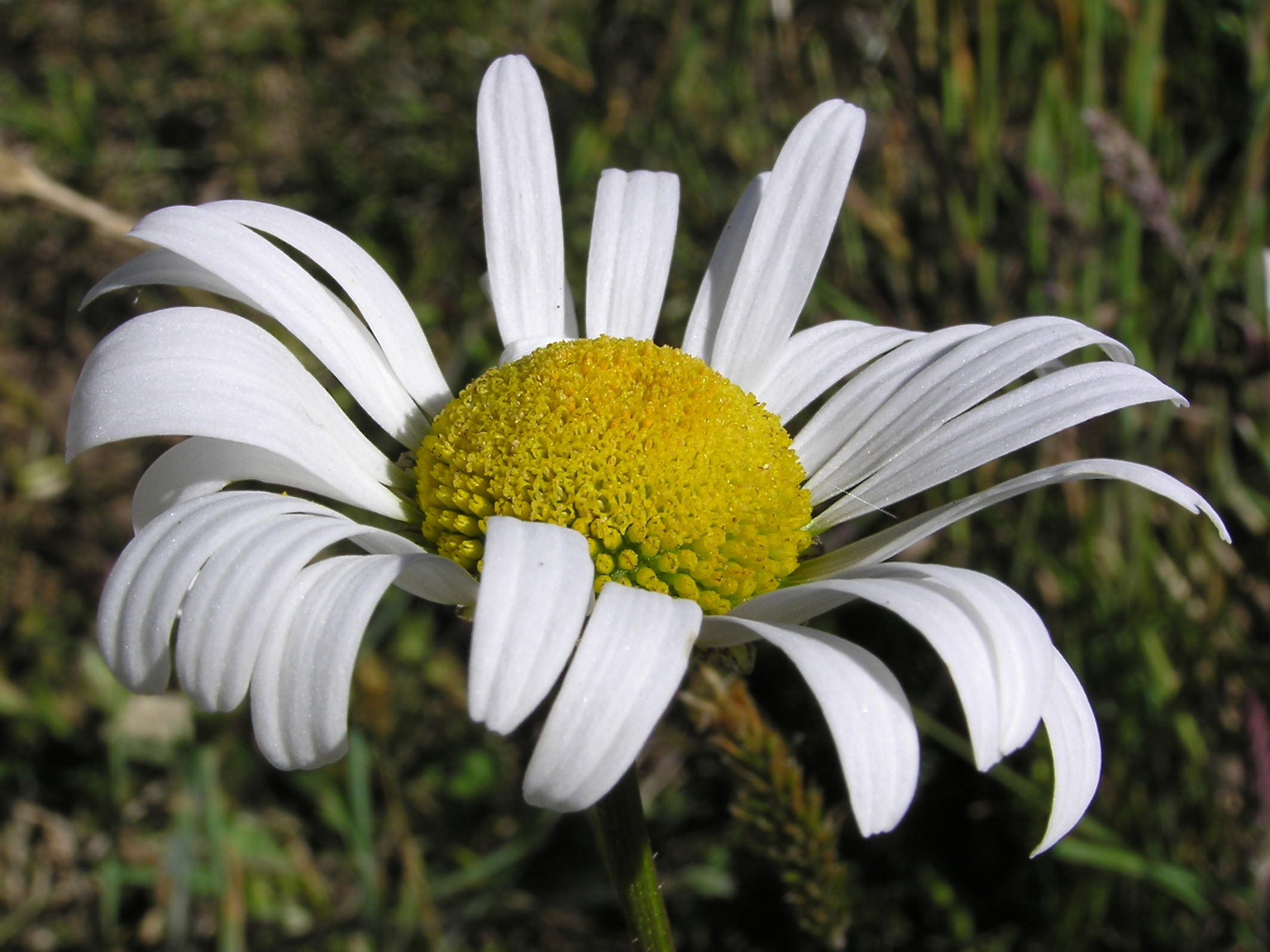 White ox-eye daisy showing domed centre as it develops after being pollinated, growing in the wild, Wellington, New Zealand (introduced weed species)